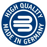 Quality label "Made in Germany"